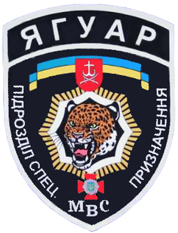 Емблема спецпідрозділу МВС «Ягуар».